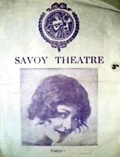 Programme for 'Paddy the Next Best Thing' at the Savoy Theatre (1920)